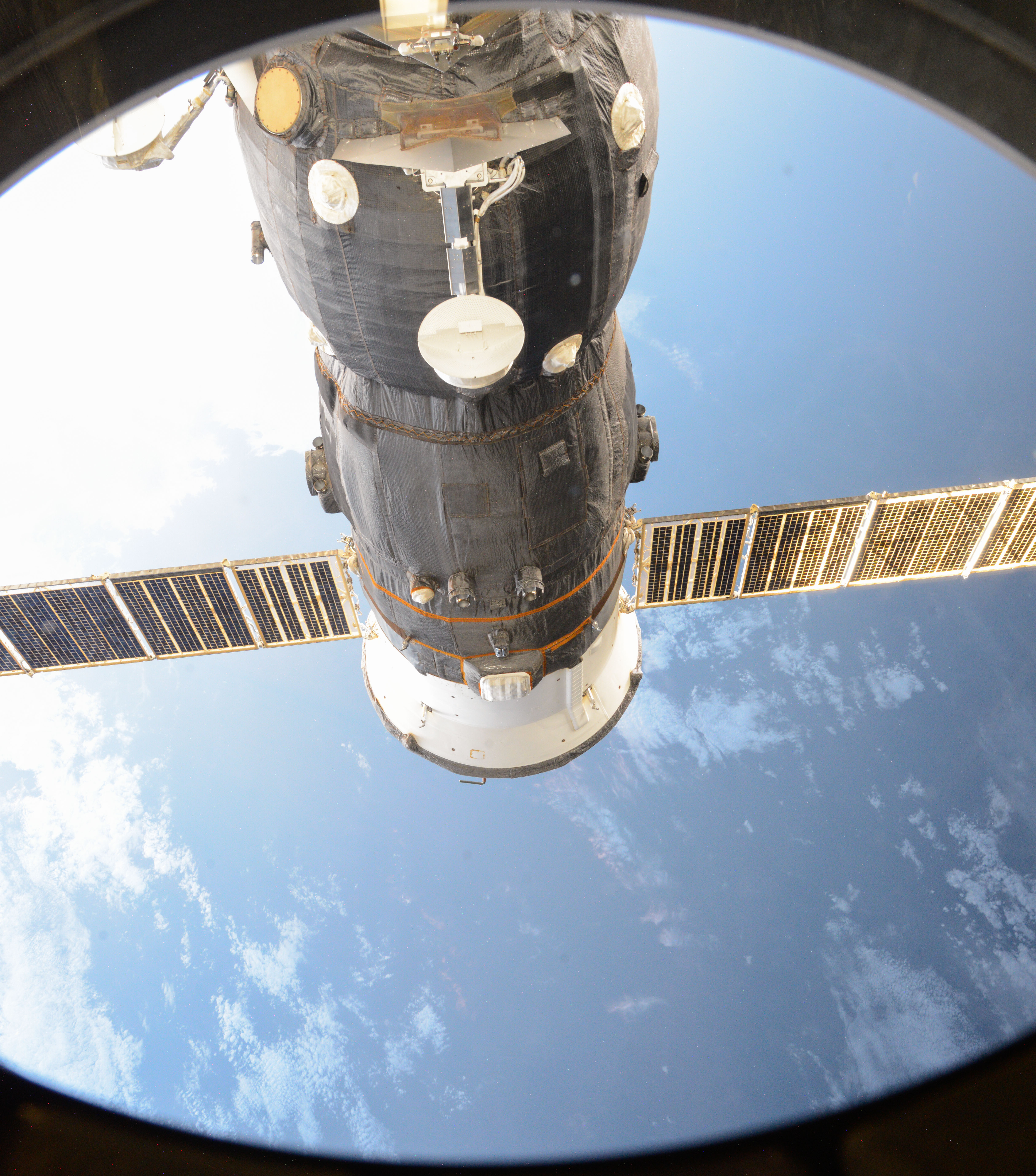 The unpiloted ISS Progress 62 Russian cargo ship is seen docked to the Pirs docking compartment of the International Space Station. Progress 62 launched from the Baikonur Cosmodrome in Kazakhstan December 21 and docked two days later. It delivered 2.8 tons of food, fuel, and supplies to the crew aboard the station.